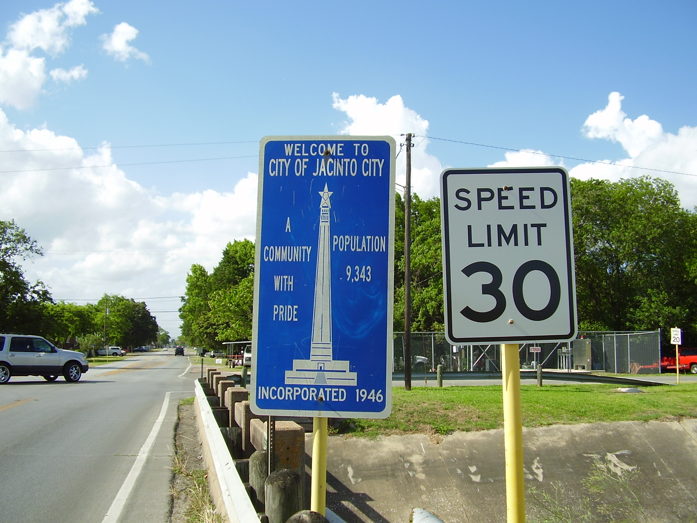 Jacinto City Welcome sign